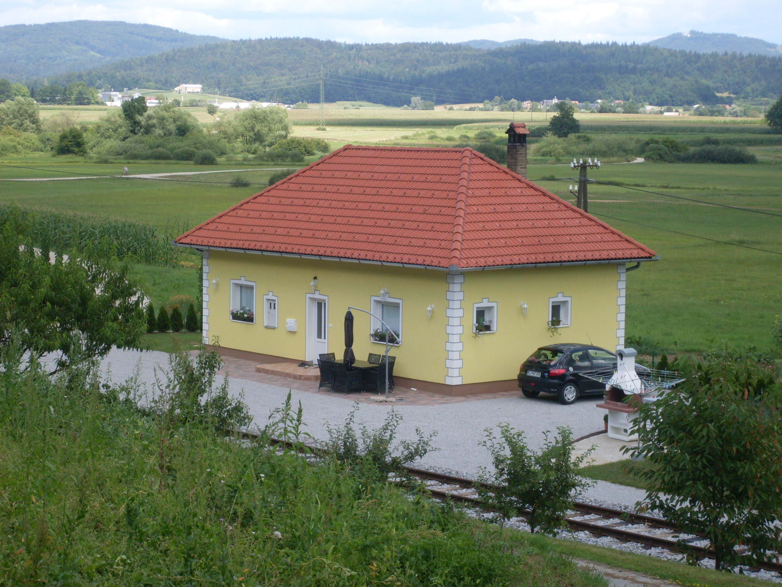 Former railway halt in Spodnja Slivnica on the Grosuplje - Kočevje line